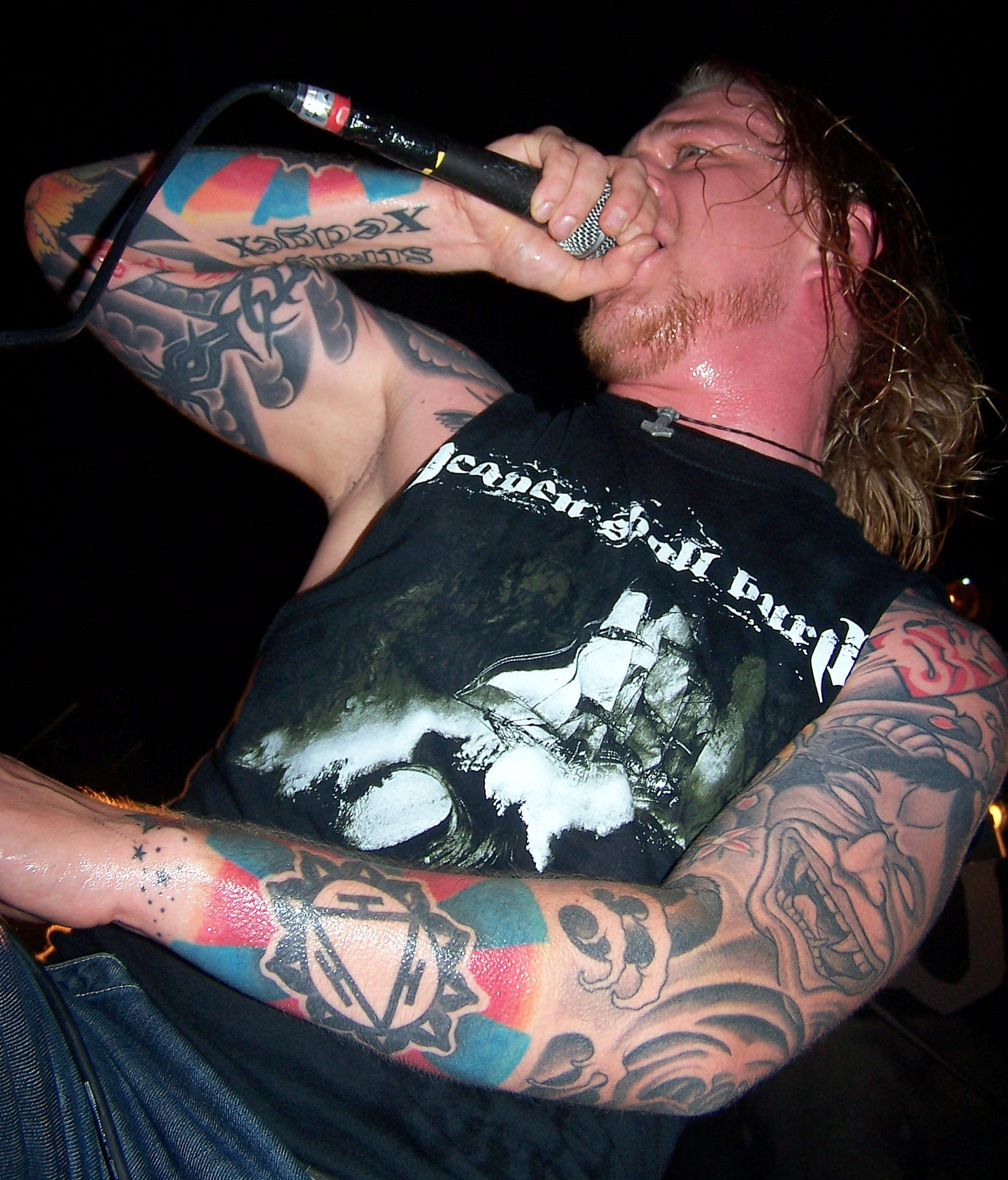 Andre Moraweck of Maroon at Hell On Earth 2006 in München. 2006, September 28